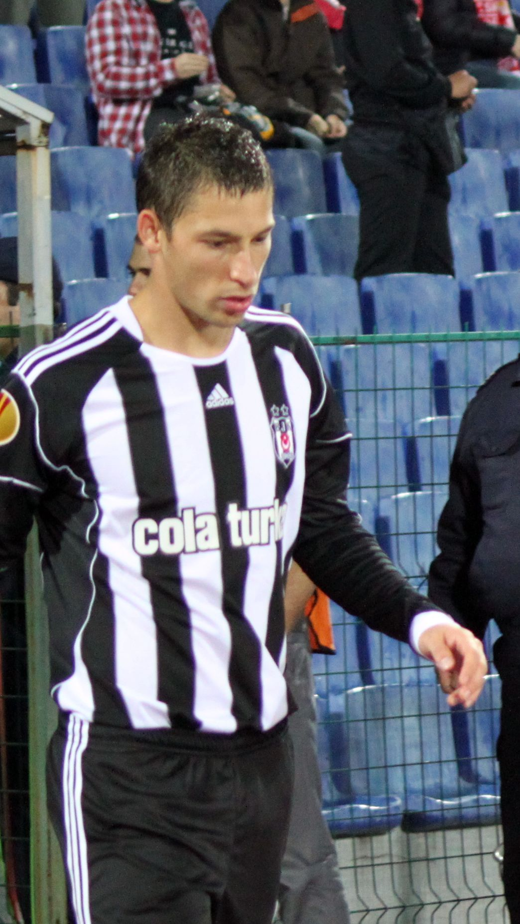 Filip Hološko (born 17 January 1984 in Piešťany) is a Slovak football striker who currently plays for Beşiktaş J.K. and the Slovakia national team.